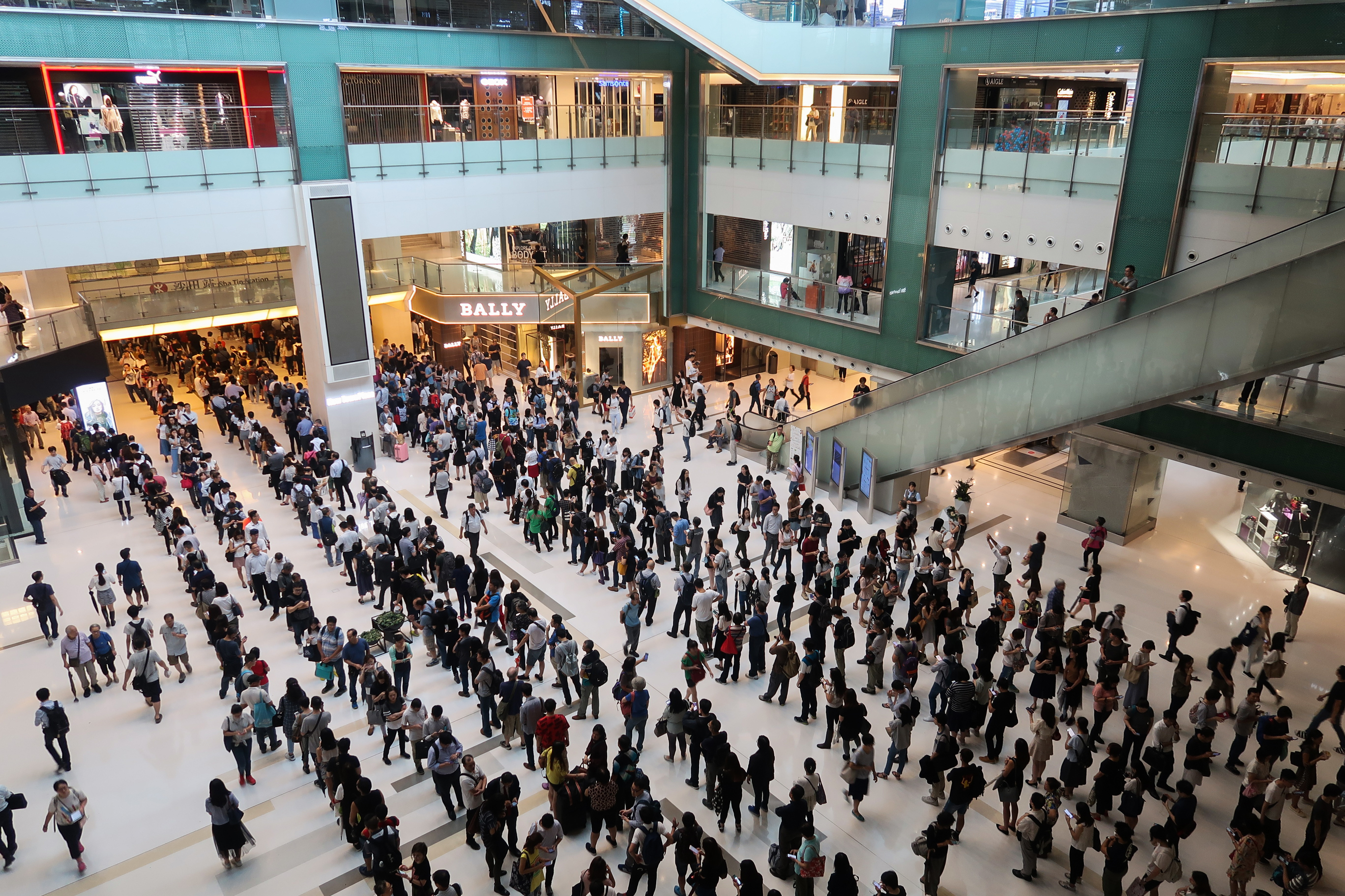 New Town Plaza queue to Shatin Station